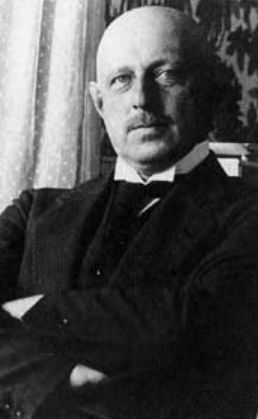 Henry Percy Newman, Merchant Banker and Art Collector from Hamburg, Germany